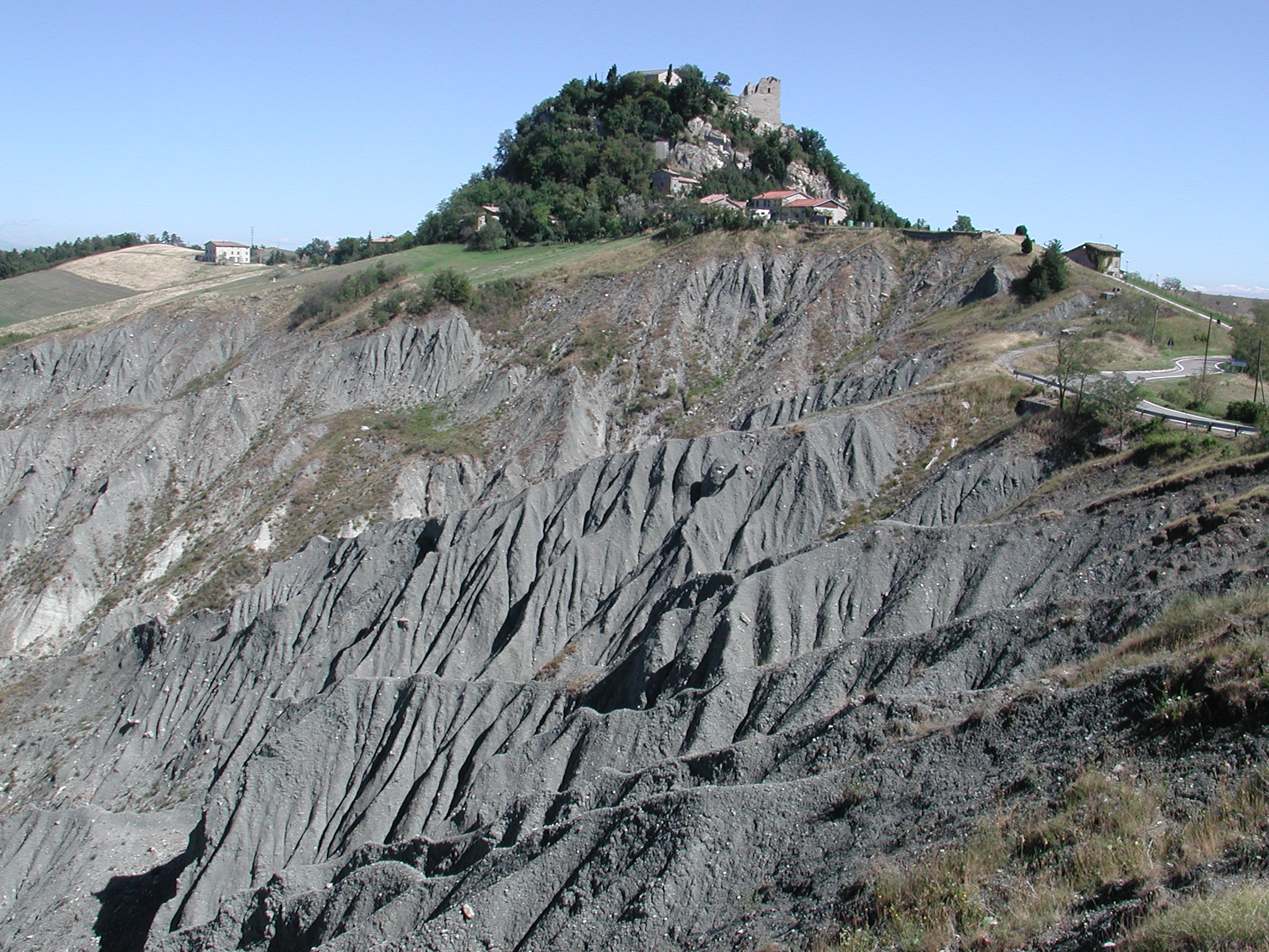 Castle of Canossa, Canossa, Italy. The grey rock in the foreground is olistostrome melange of Miocene age.